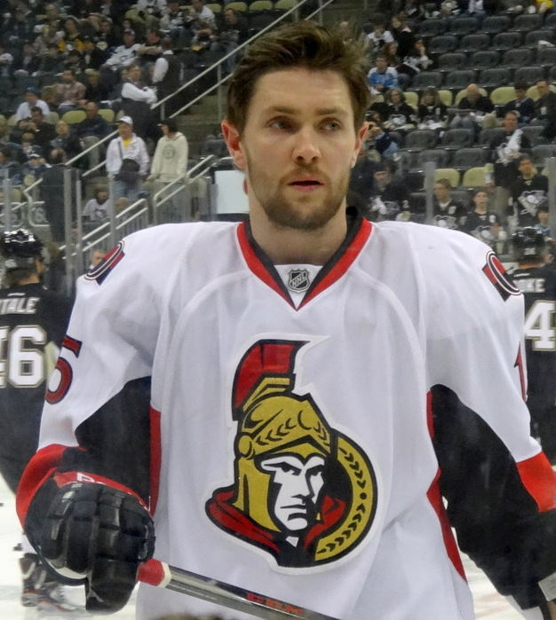 Ottawa Senators forward Zack Smith during game five of their second round series against the Pittsburgh Penguins, May 24, 2013 at Consol Energy Center in Pittsburgh, PA.